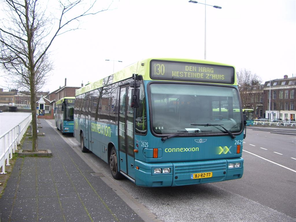 Den Oudsten B95 Alliance Intercity bus (#2625), Station Delft, Netherlands, april 2006.